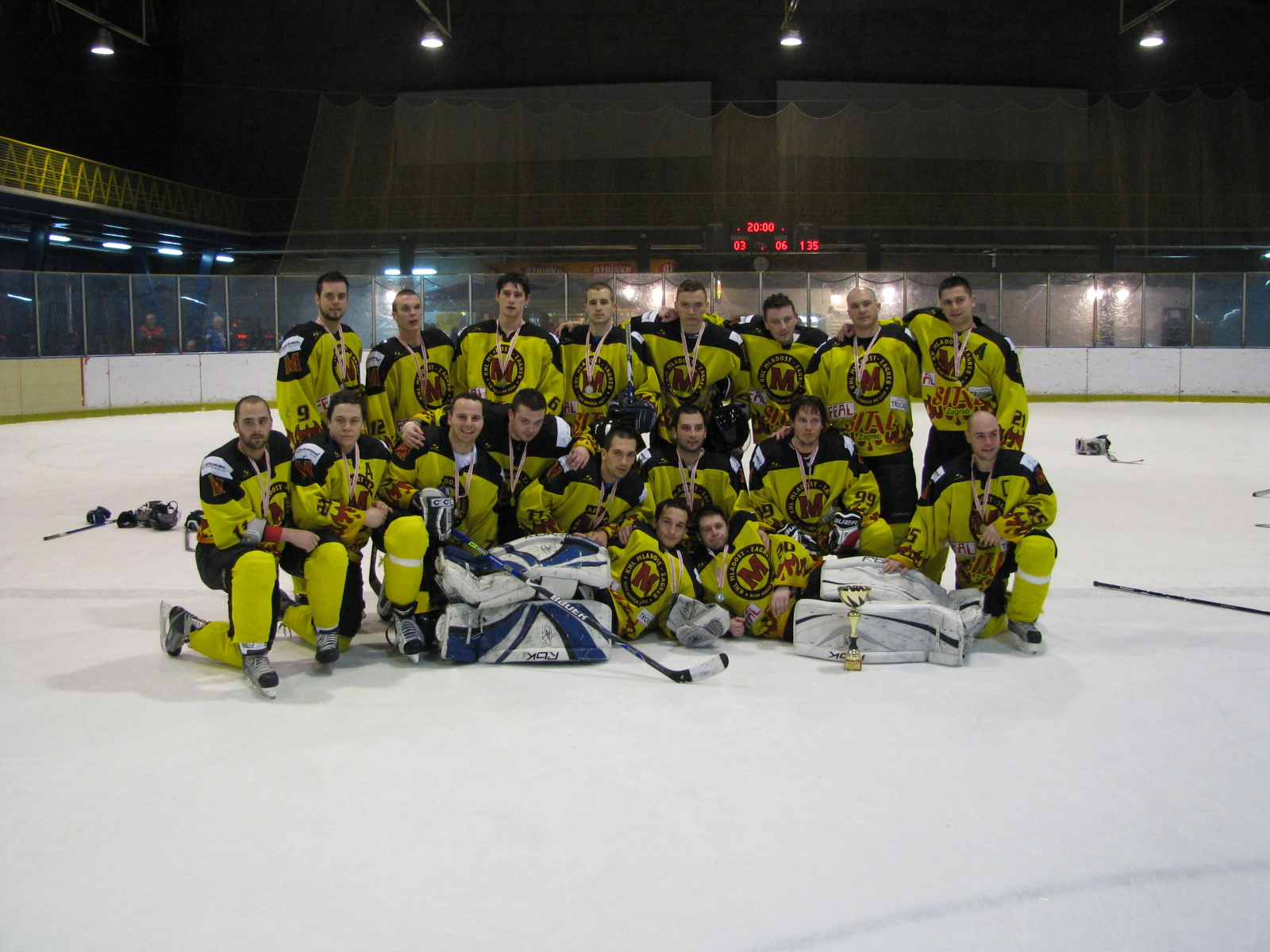 KHL Mladost Zagreb